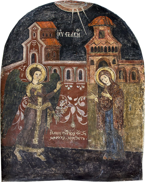 Annunciation Fresco on the Western Wall of Apostles Church in Veria